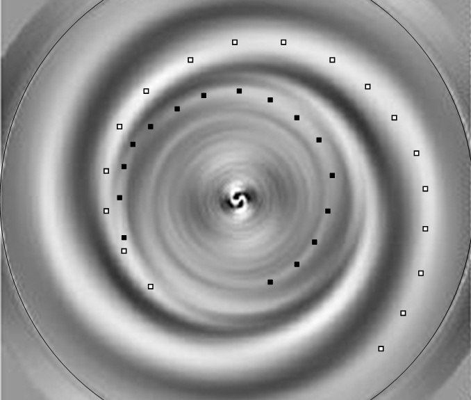 NGC4622 Fourier Transform m = 2